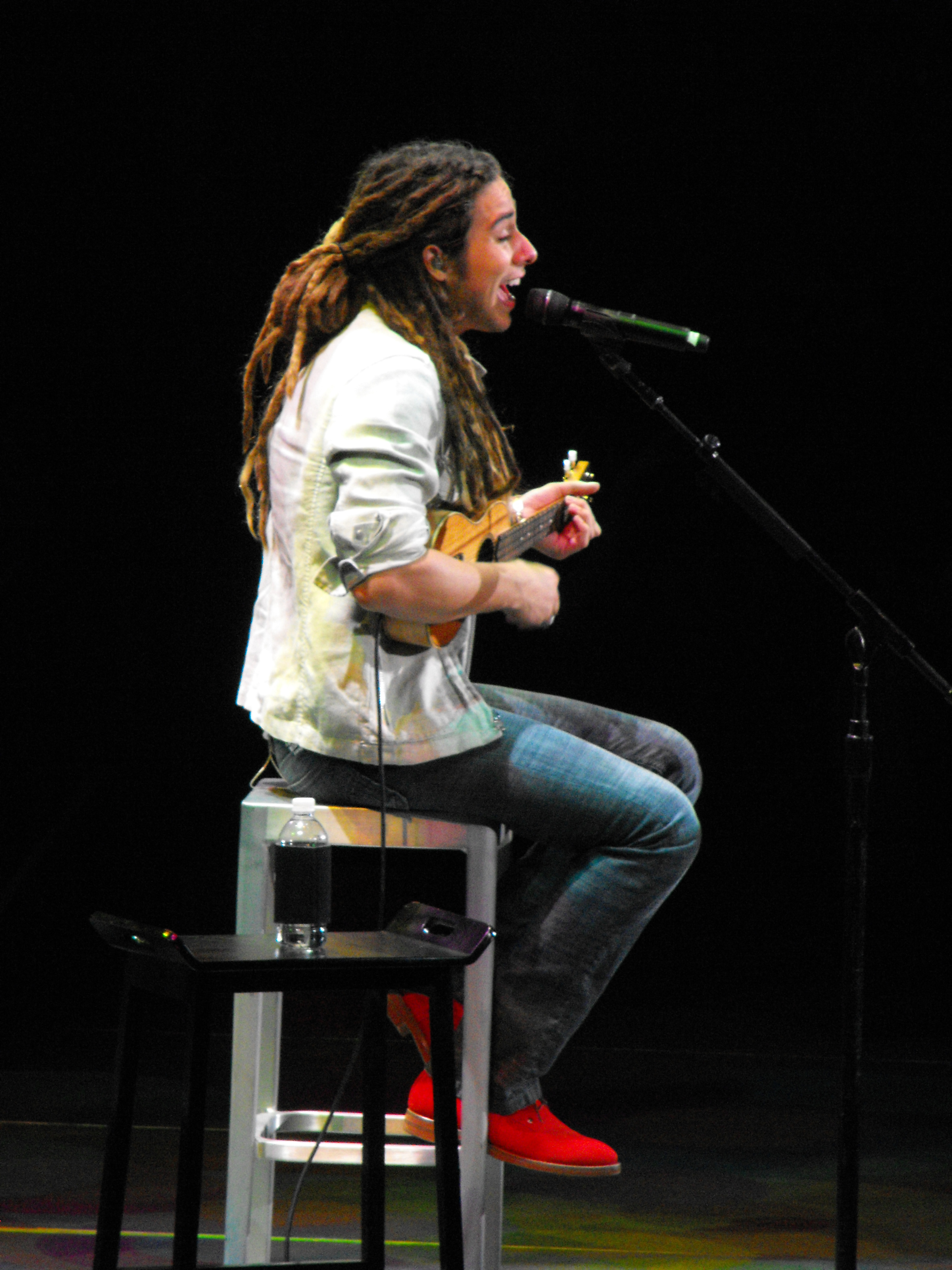 The American singer Jason Castro performing during American Idol's season 7 tour, 2008